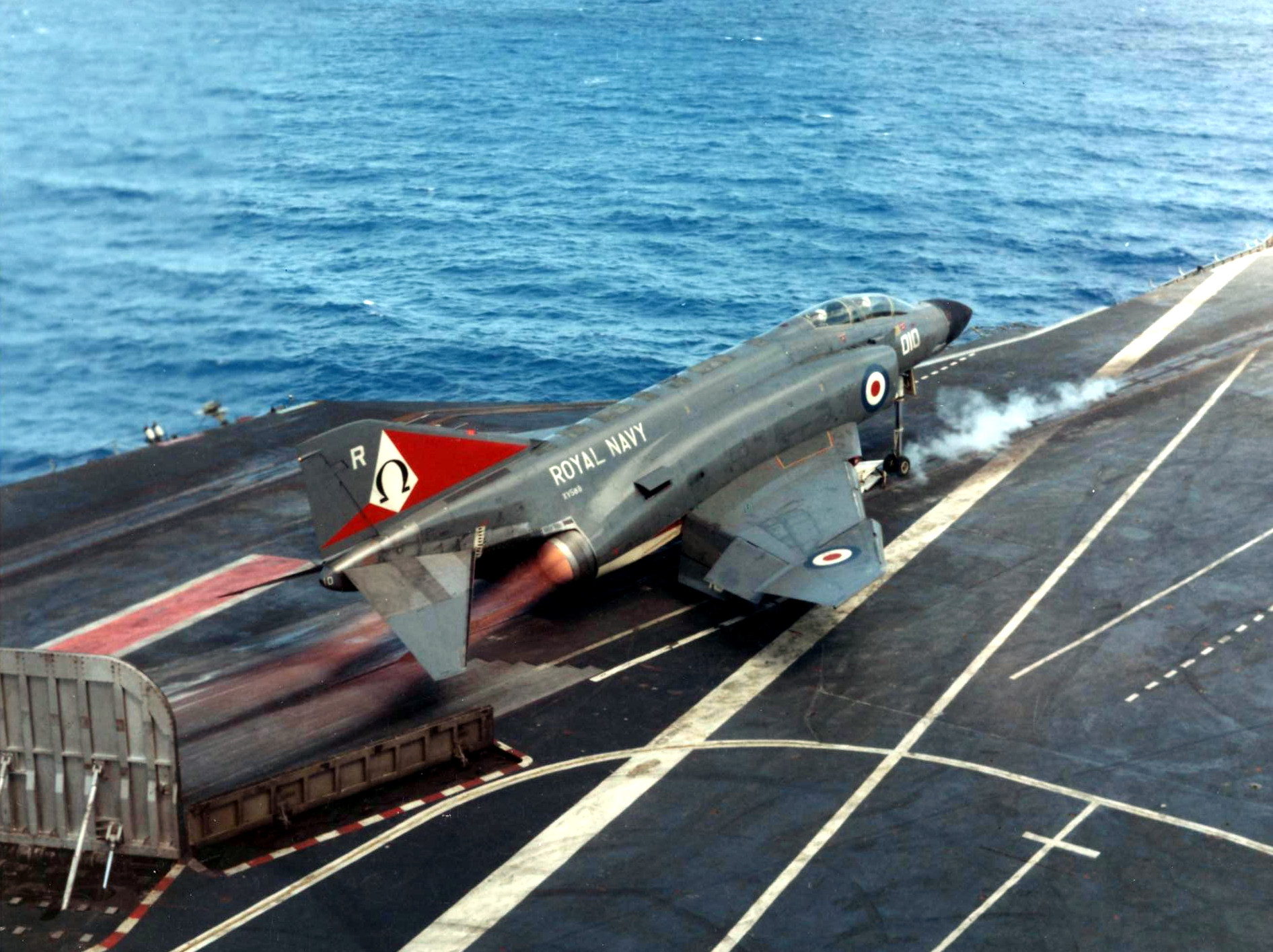 A Royal Navy McDonnell Douglas Phantom FG.1 from 892 Naval Air Squadron is launched from the aircraft carrier HMS Ark Royal (R09).